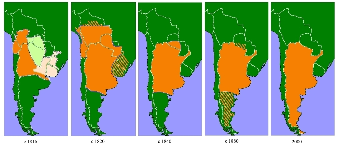 The changing State of Argentina from 1816 to the present day. Hatched lines are borders subject to rapid change. The light green area is Indigenous Territory, the light pink area is Liga Federal territory.